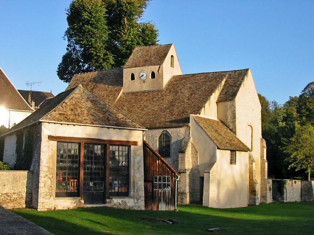 Church of Goussonville (Yvelines, France)